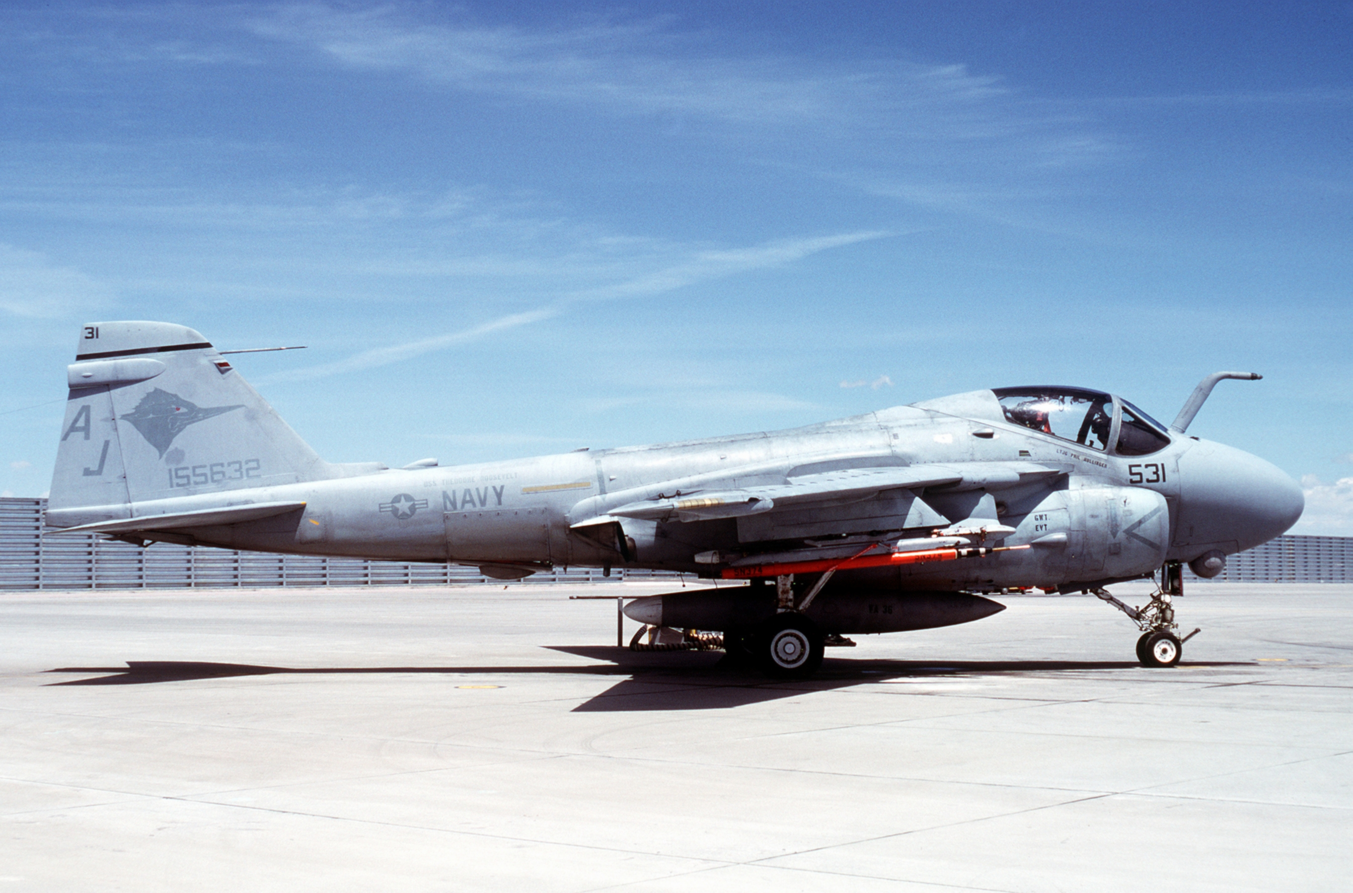 A U.S. Navy Grumman A-6E Intruder (BuNo 155632) from attack squadron VA-36 Roadrunners, Carrier Air Wing 8 (CVW-8), at the Naval Air Station Fallon, Nevada (USA), in 1988.